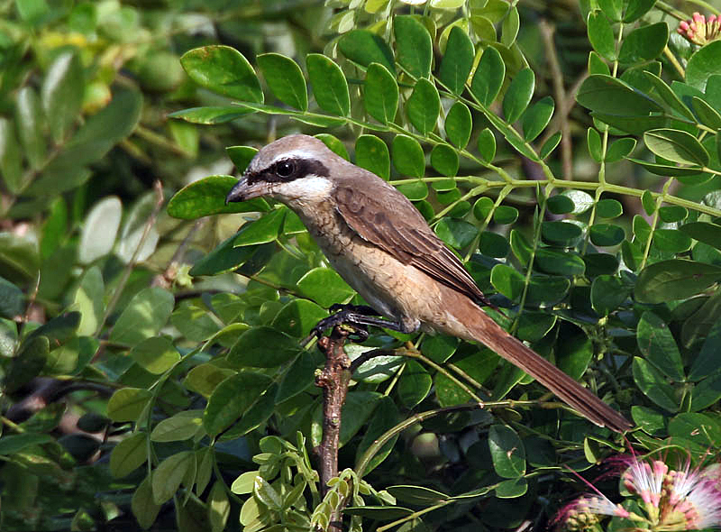 Brown Shrike Lanius cristatus lucionensis in Kolkata, West Bengal, India.